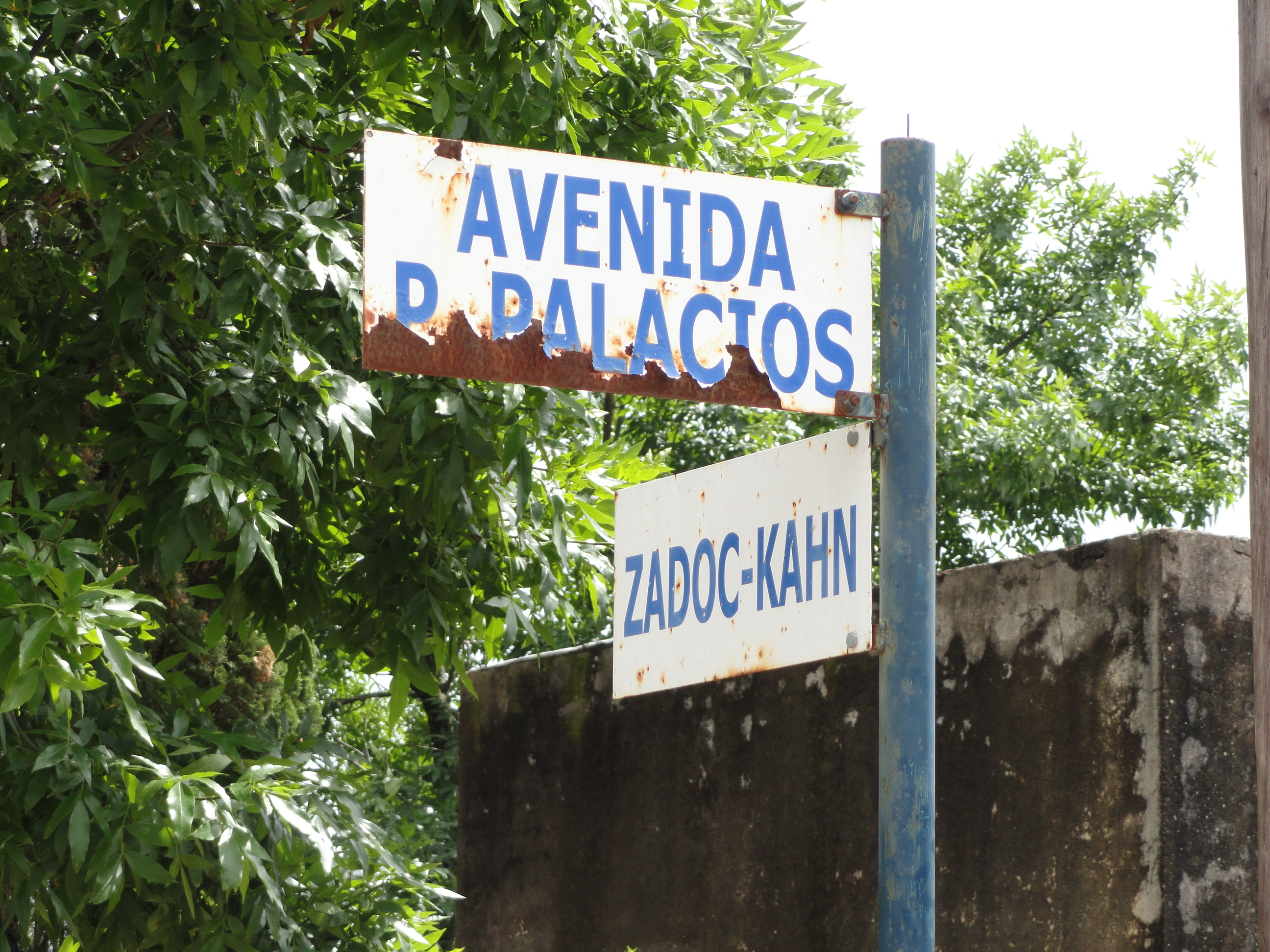 Street signs in Palacios (Argentina). Named in homage of Zadoc Kahn, chief rabbi of France for his help to the Jewish immigrants, abandonned in Palacios (Moisés Ville)